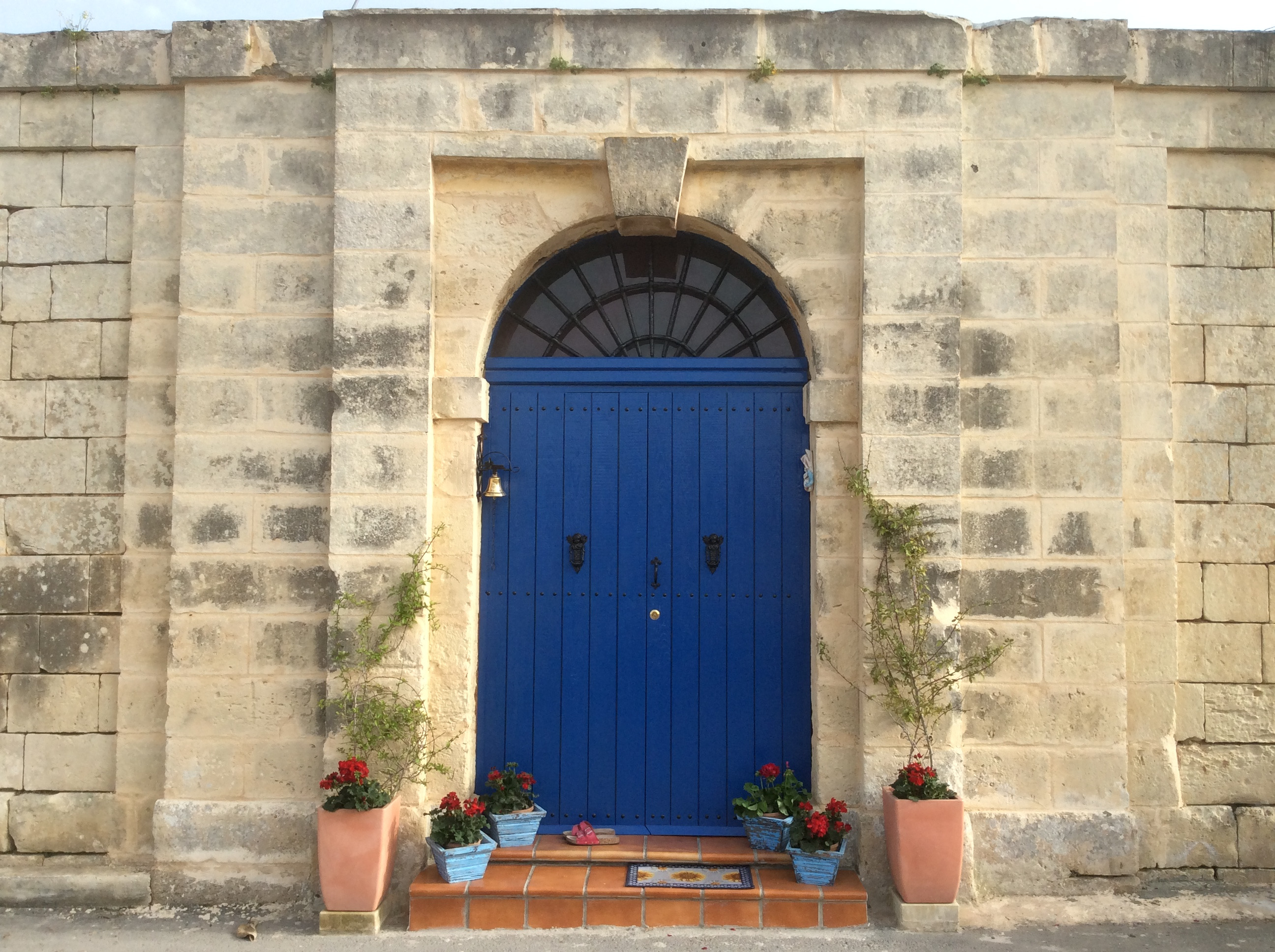 Attard whereabouts